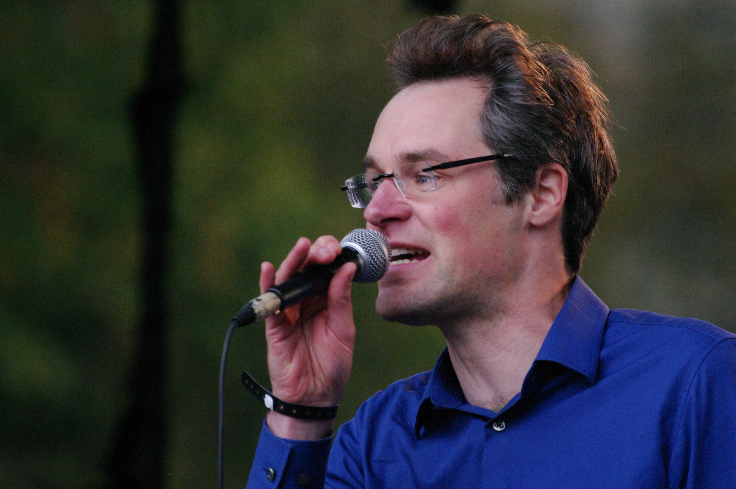 Freedom not Fear, Berlin 2014